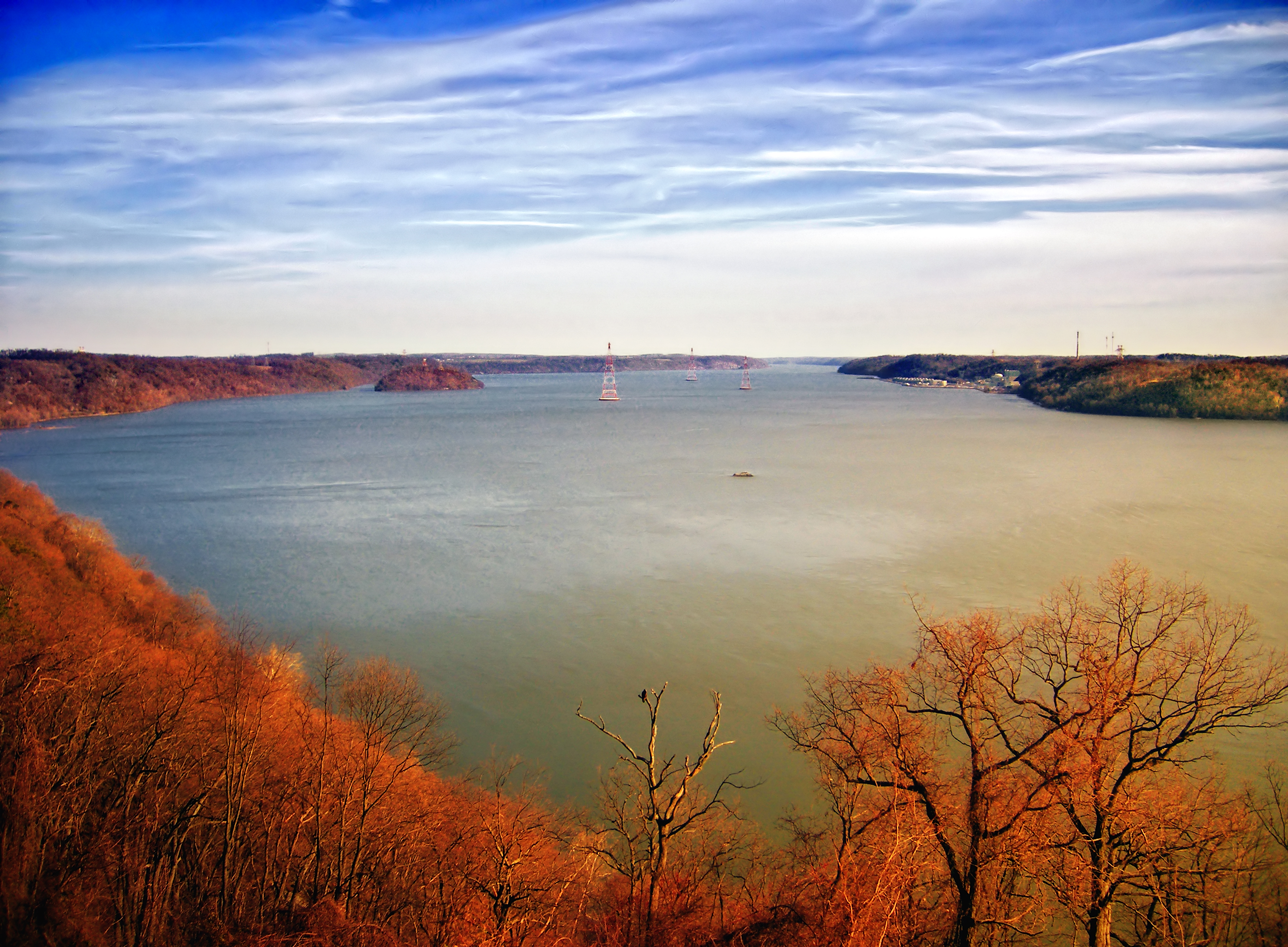 South-to-southwest view of the Susquehanna River, Lancaster and York Counties, from Hawk Point Overlook, Susquehannock State Park. The bits of civilization here detract from the view. A better, more natural view lies several miles away at the Pinnacle Overlook. I'll stop by there during my next trip to the area.